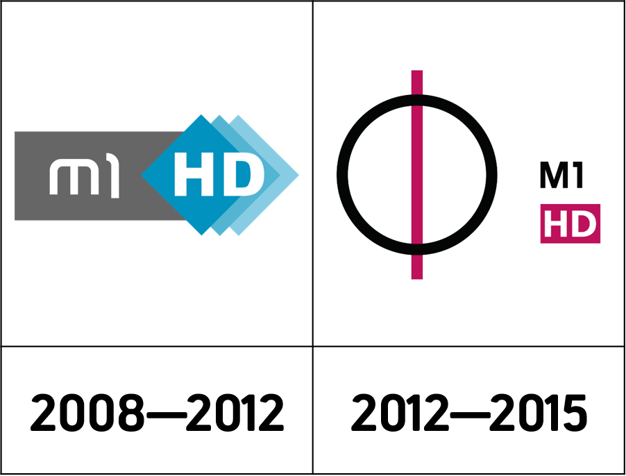 The HD logos used by M1, Hungarian public broadcaster since 2008. 2015 februárja óta a csatornaazonosítókban egyik közszolgálati csatornánál sincs külön jelzés a HD vételre.